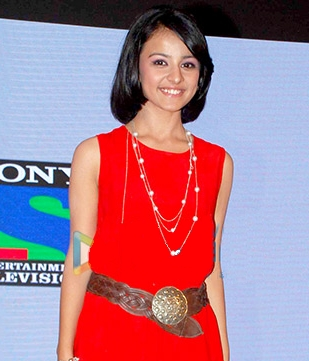 Mahima Makwana at the launch of Dil Ki Baatein Dil Hi Jaane